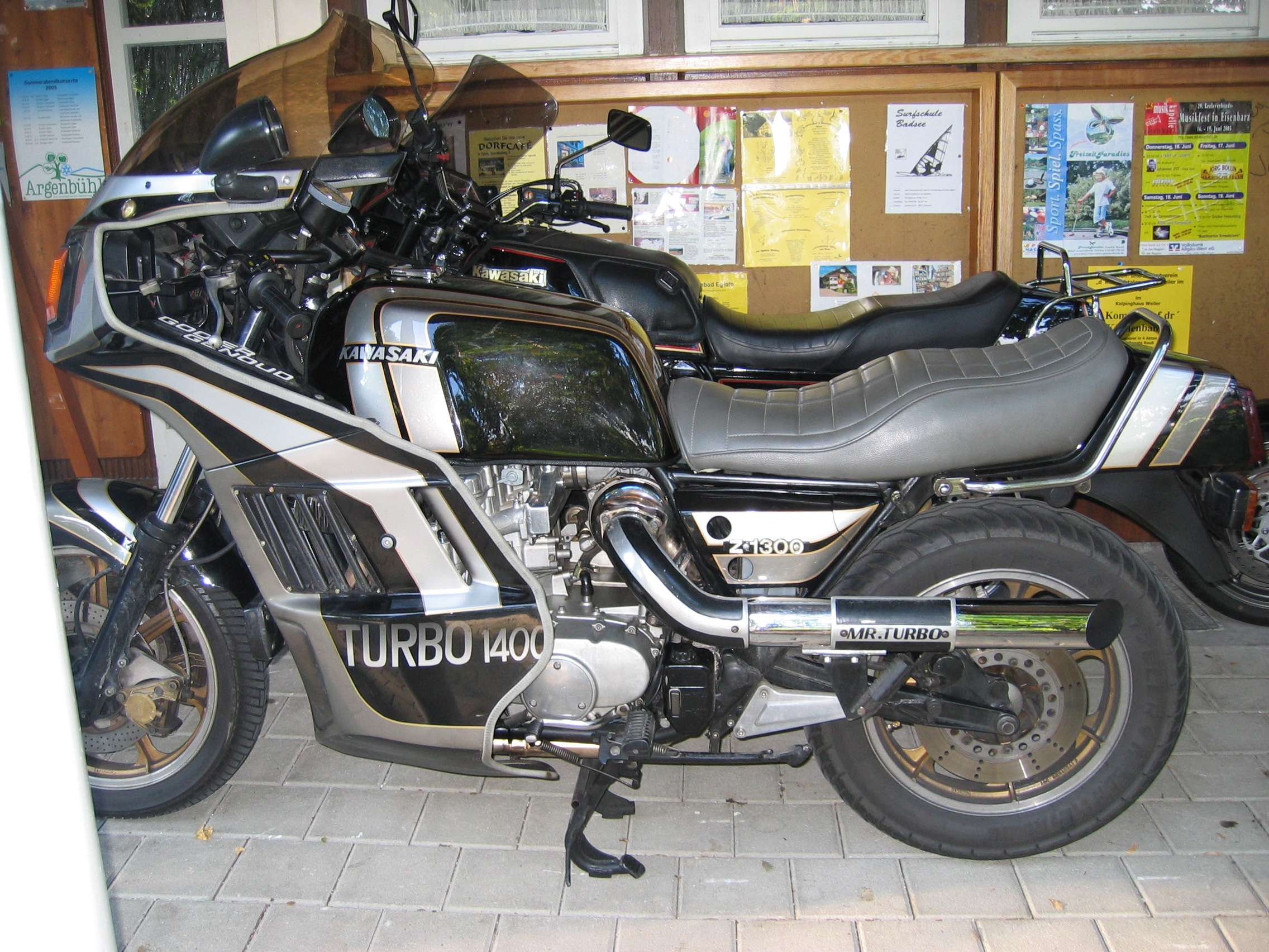 Godier Genoud Z1400 Turbo, left side view